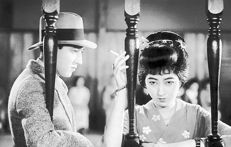 Ureo Egawa and Michiko Oikawa in Minato no Nihon musume (港の日本娘) directed by Hiroshi Shimizu - 1933